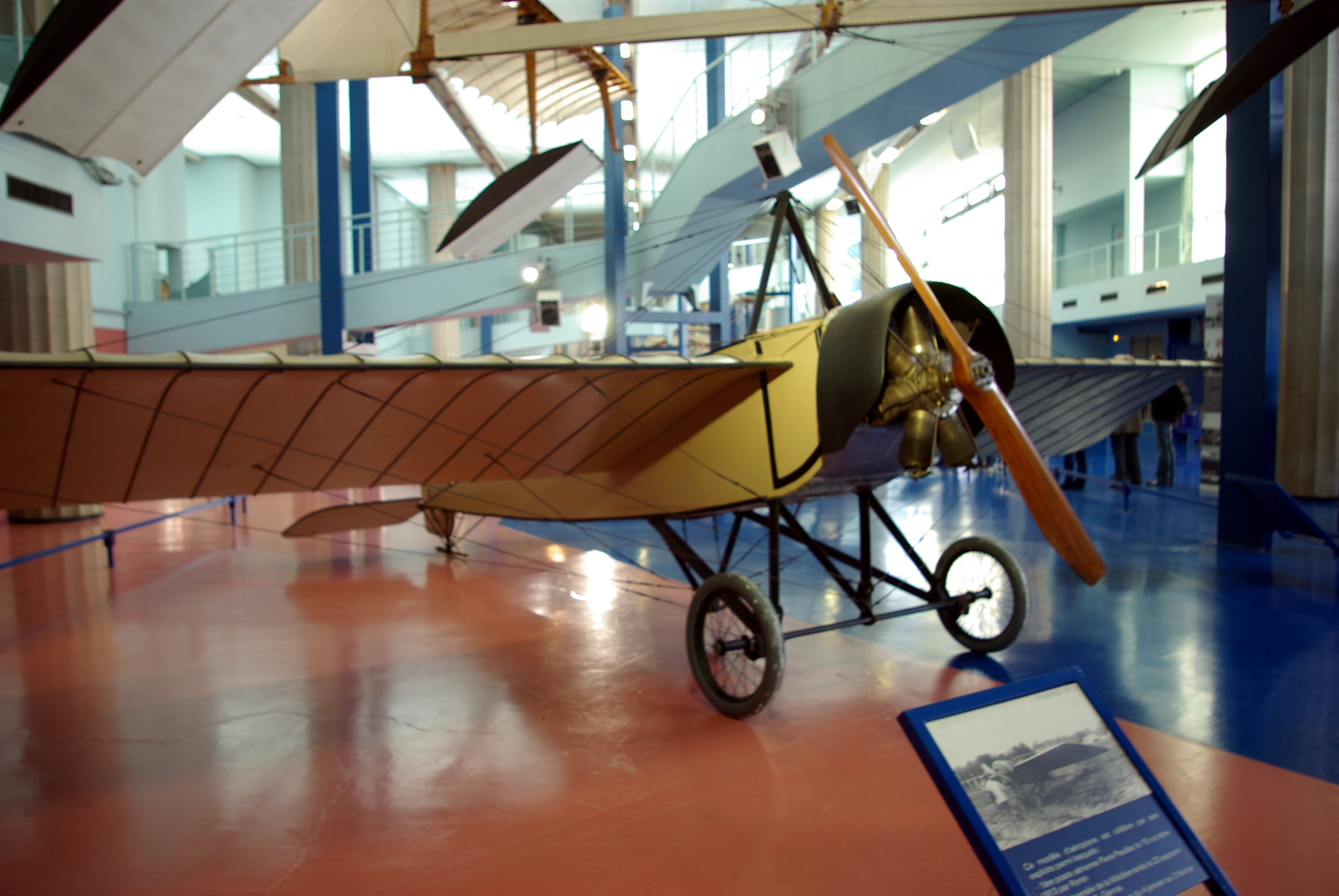 A Morane type H exhibited at the Air & Space Museum at Le Bourget, France.